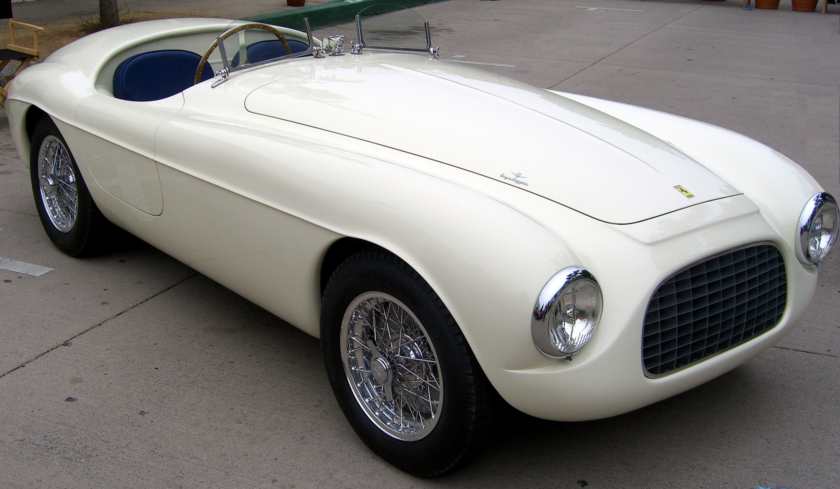 Ferrari 166MM Barchetta; note the incorrect lights, windshield and chrome wire wheels. This is #049S, originally bodied by Ghia. Crashed and damaged by fires. Rebodied to its current Touring shape around 1999/2000.[1]